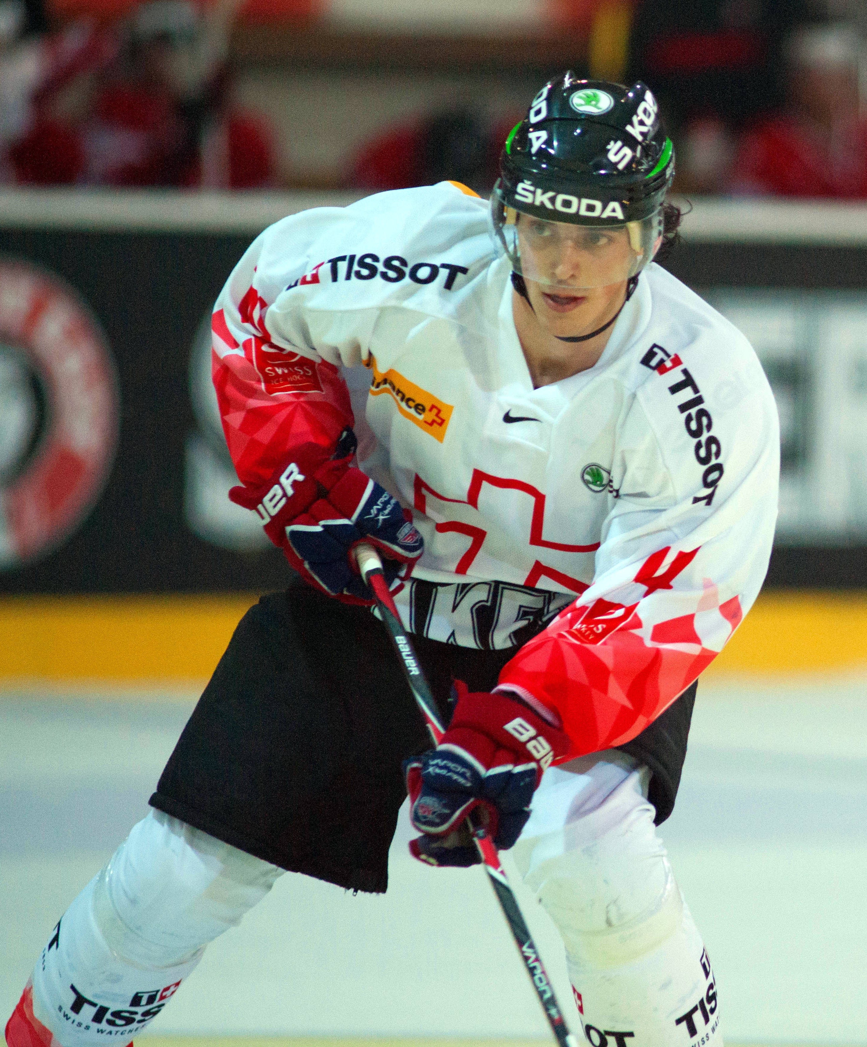 Switzerland vs. Canada, 29th April 2012